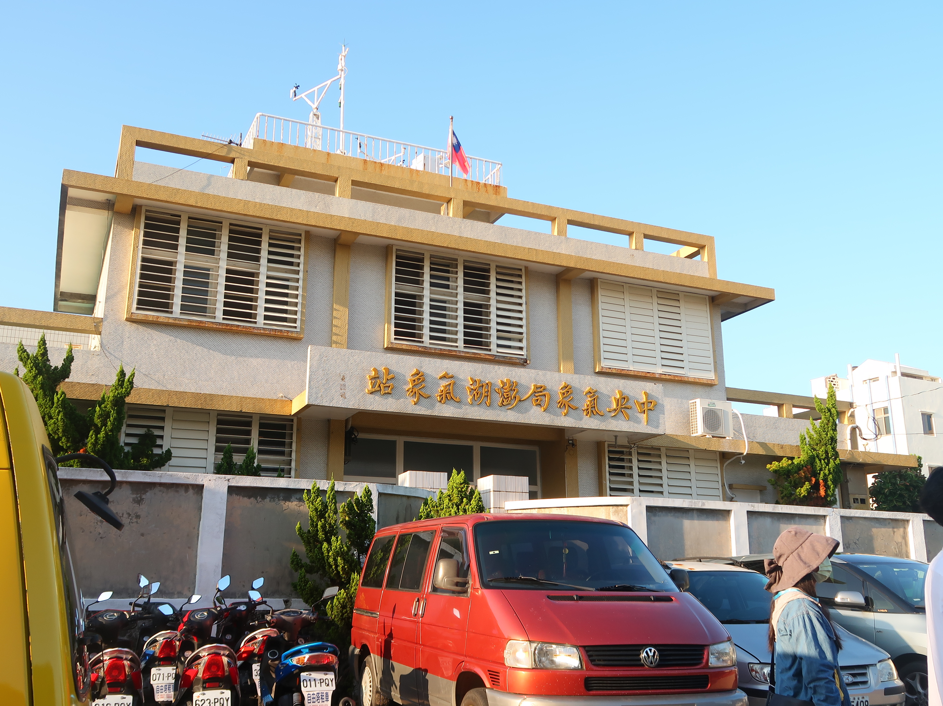 Penghu Weather Station, Taiwan